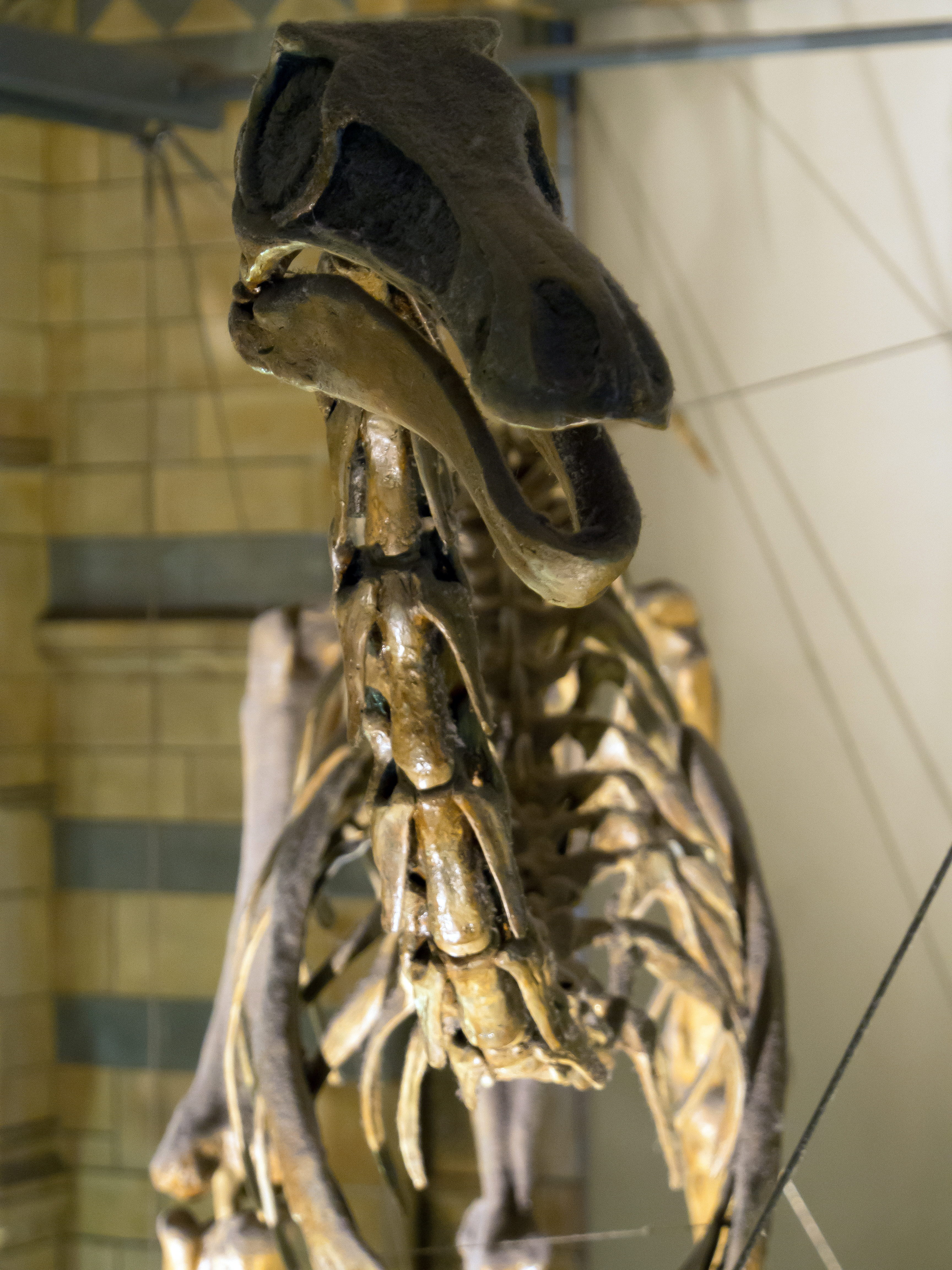 Gallimimus skeletal mount, Natural History Museum, London.